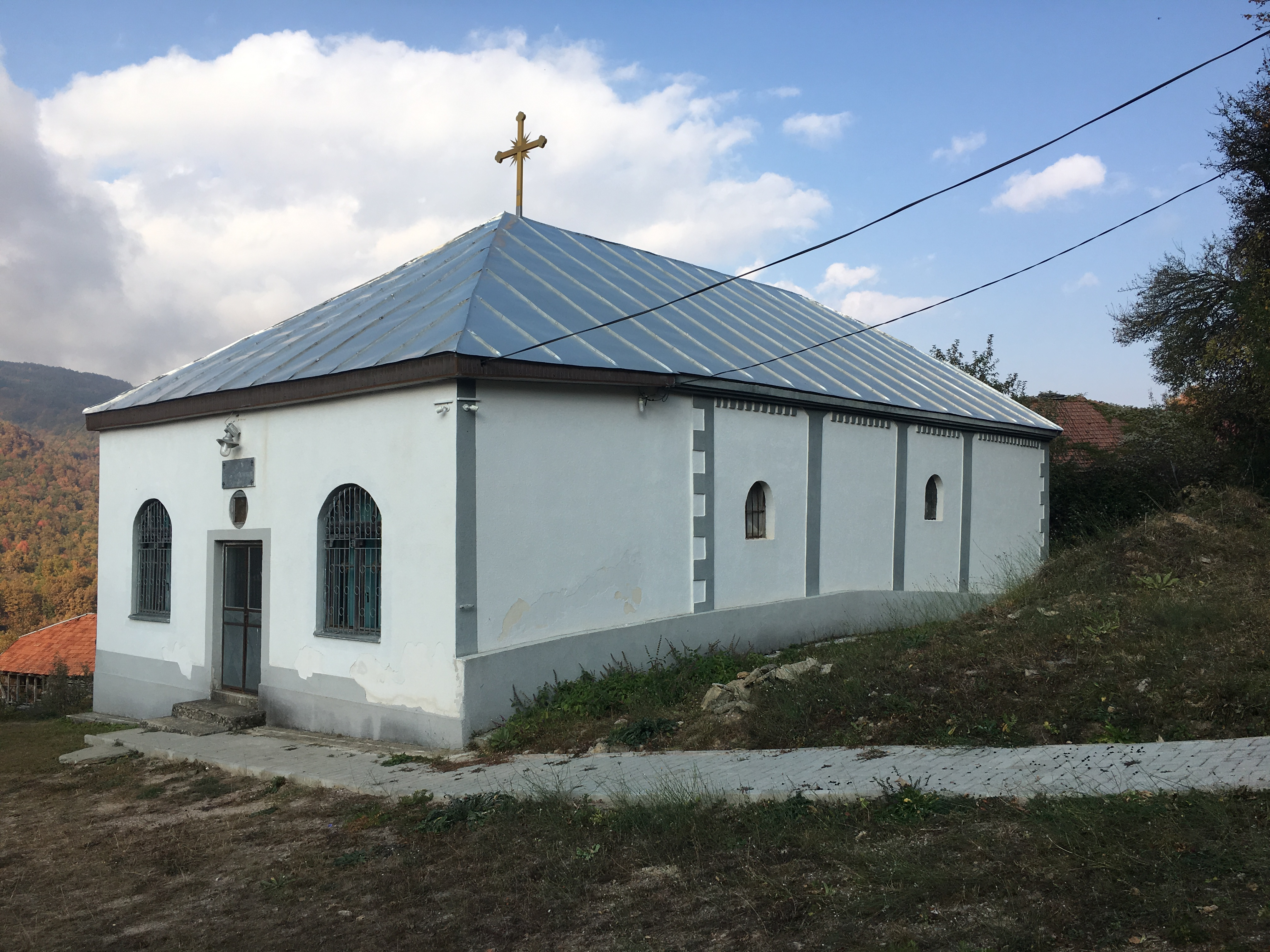 Wikiexpedition to Kopačka